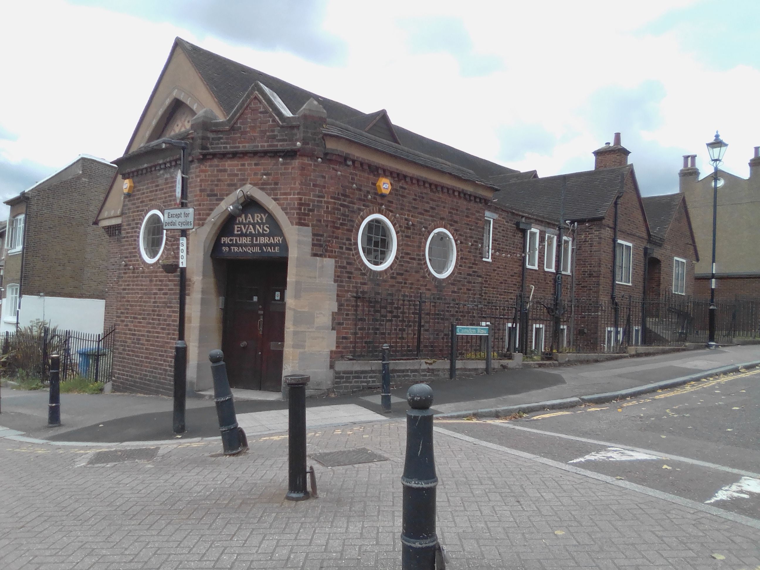 All Saints Parish Hall, Tranquil Vale, Blackheath, London SE3, built in Arts and Crafts style, architect Charles Canning Winmill, opened in 1928.